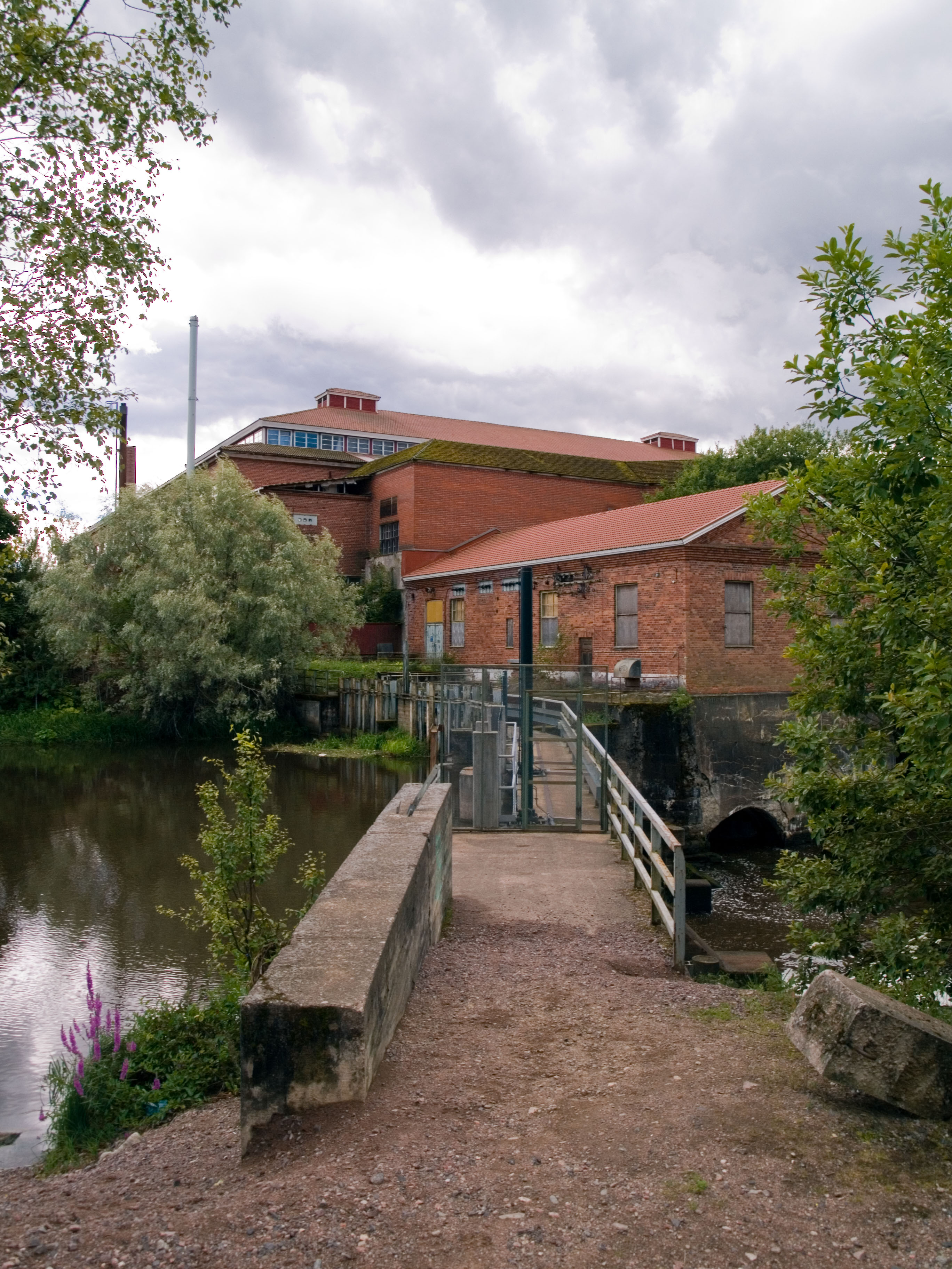 Small hydropower plant next to former paper mill and leatherware factory (seen in the background) in Vesikoski, Loimaa, Finland.